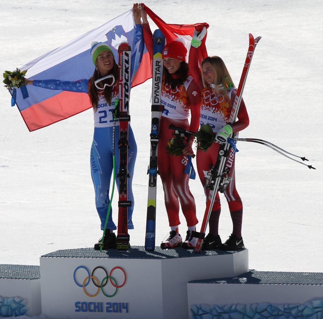 Women's downhill, 2014 Winter Olympics, podium Gold medal Tina Maze, Slovenia Gold medal Dominique Gisin, Switzerland Bronze medal Lara Gut, Switzerland